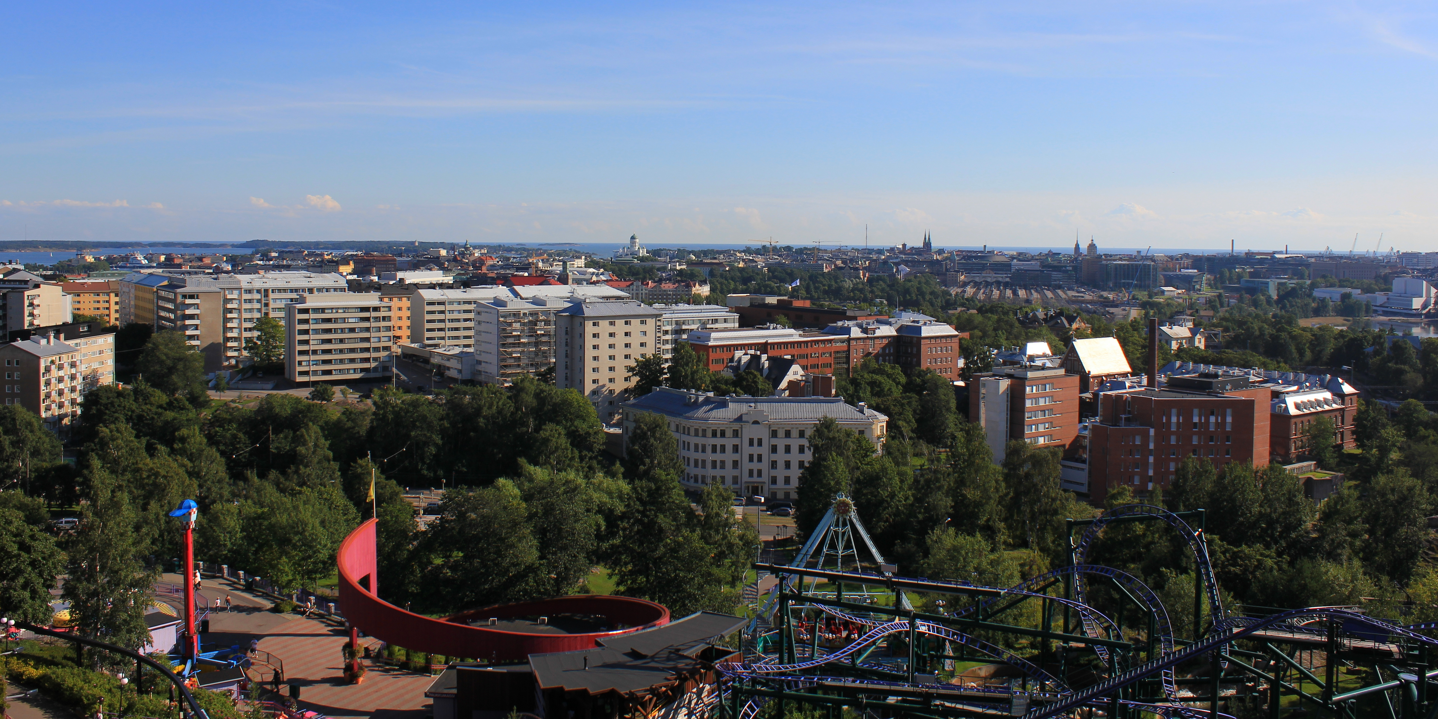 Helsinki, Finland, viewed from Rinkeli at Linnanmäki. Late summer sunshine. Direction south-east.